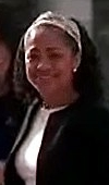 Doria Ragland from VOA video, sharpened